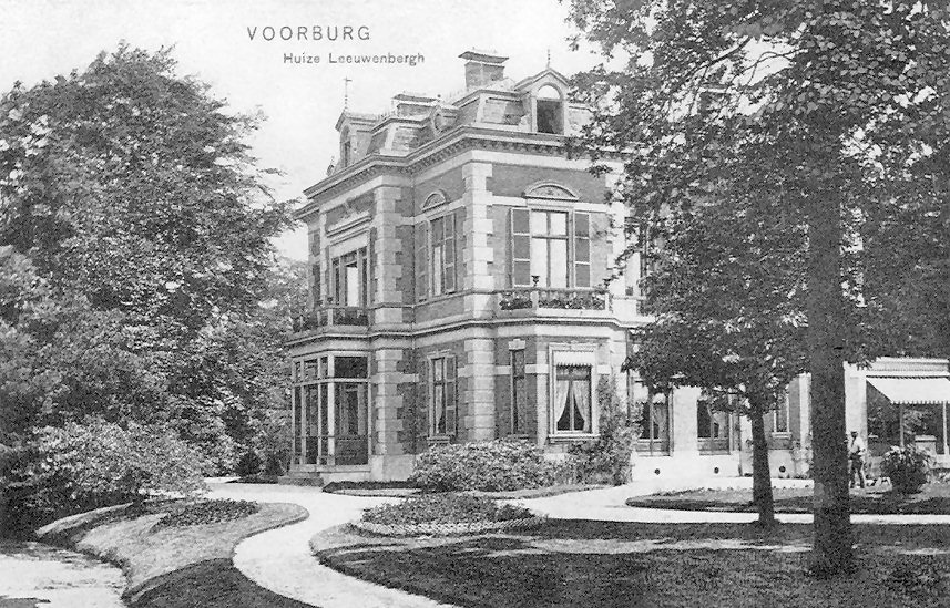 A postcard of castle Leeuwenbergh, Park Leeuwenbergh, Leidschendam, South-Holland, The Netherlands.